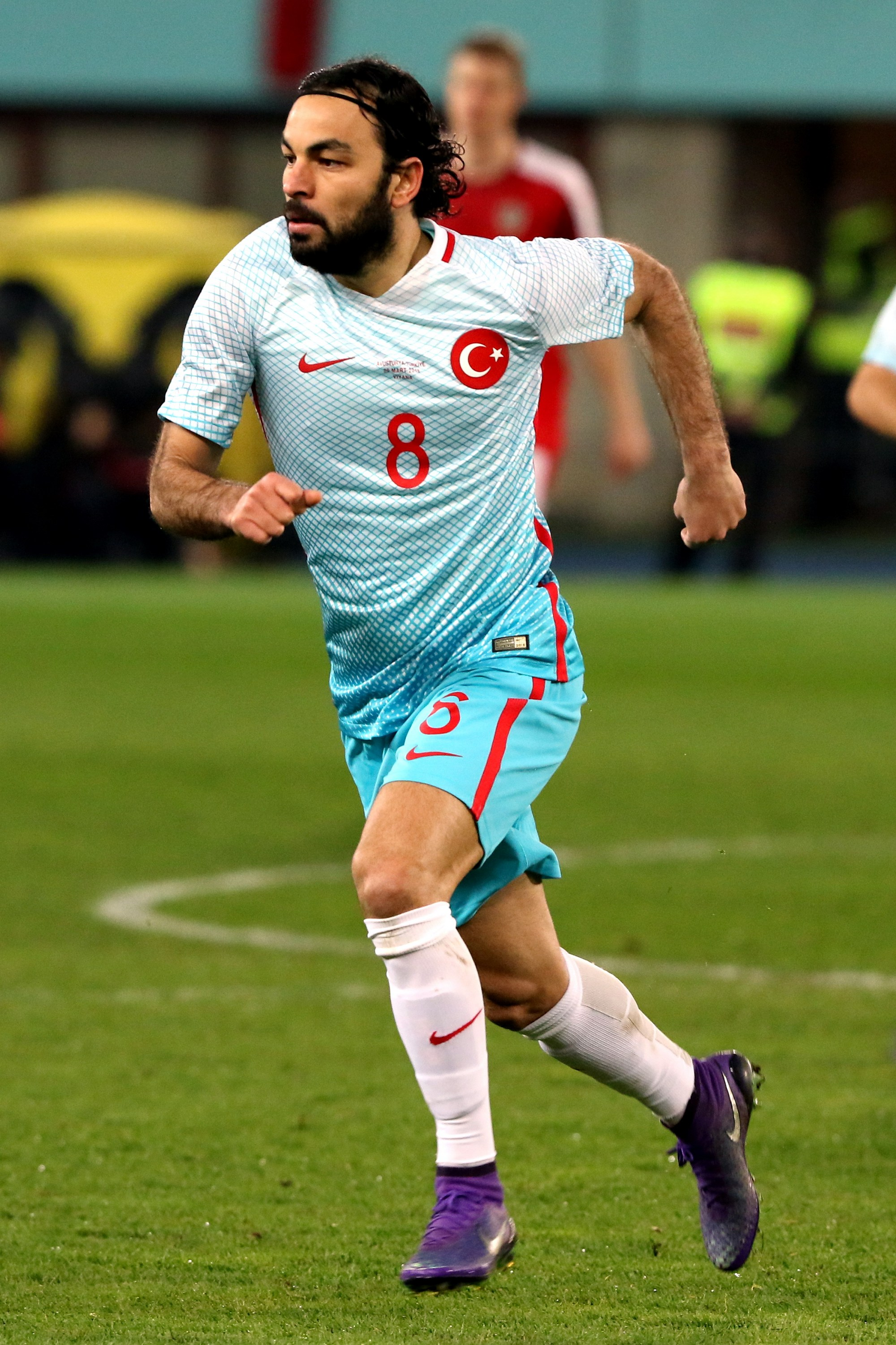 Friendly match – Austria (red shirts) vs. Turkey (blue shirts) 1–2 (1–1) on 2016-03-29 in Ernst-Happel-Stadion, Vienna – The photo shows Selçuk İnan (Galatasaray).